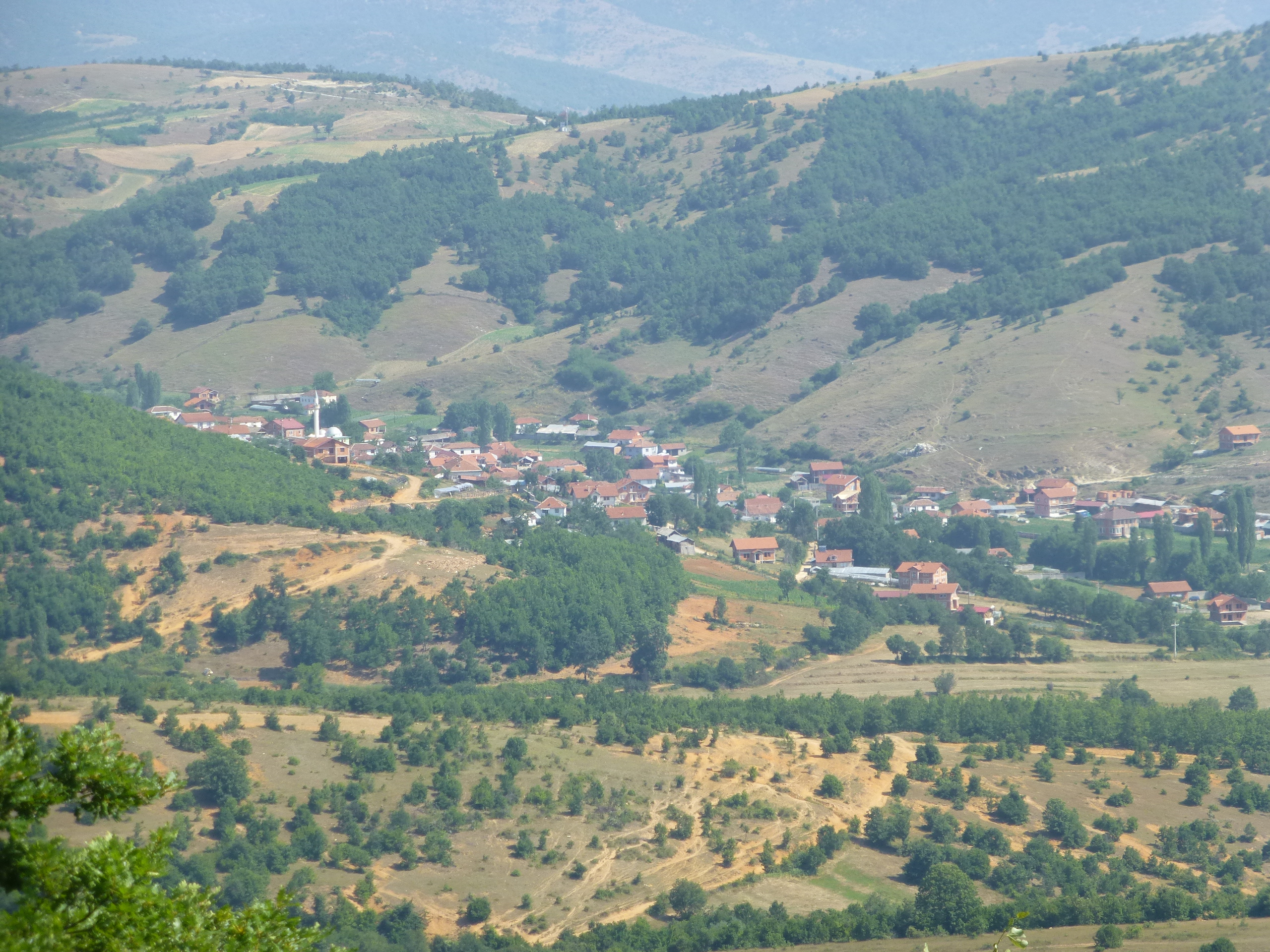 Views from Macedonian Hwy R1306, as it climbs up the hill from Krivogaštani to Kruševo. The village with the mosque and minaret is Norovo (Kruševo Municipality)